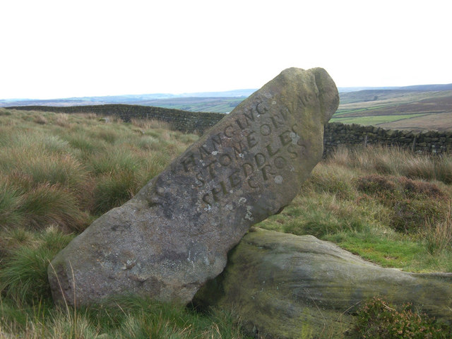 The Hanging Stone Marked on the 1/50,000 map as an antiquity. It is probably a boundary stone as it sits on the line between Lancashire and West Yorkshire just north of the Laneshaw Bridge to Haworth road. It is 7ft long (2 metres) and rests at an angle of 45 degrees. It is inscribed together with its alternative name of Water Sheddles Cross.